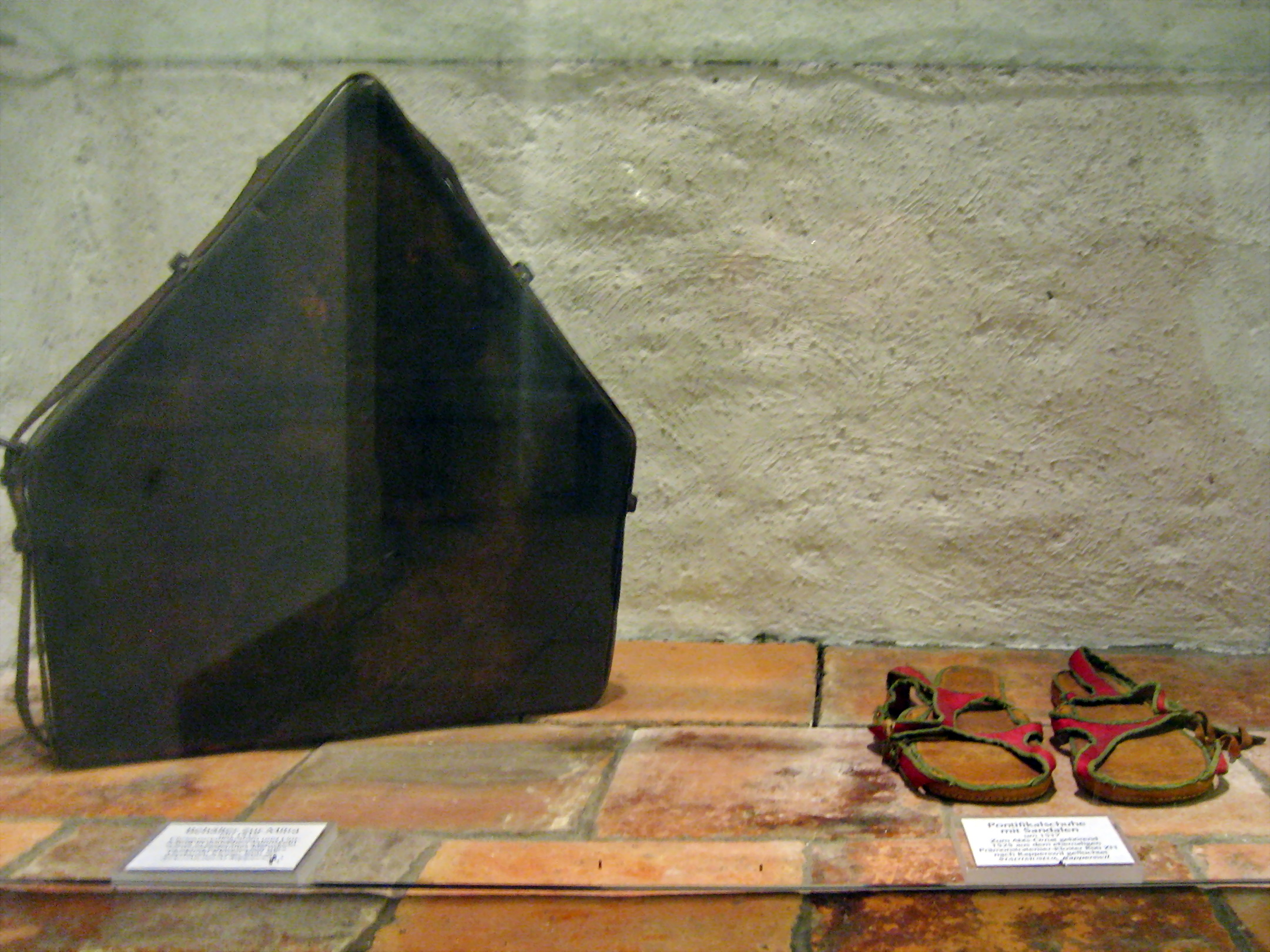 'Stadtmuseum Rapperswil', Rapperswil-Jona: Mitre case and pontifical sandals (c. 1517) from monastery treasury, former Premonstratensian Monastery Rüti (ZH) (1525)